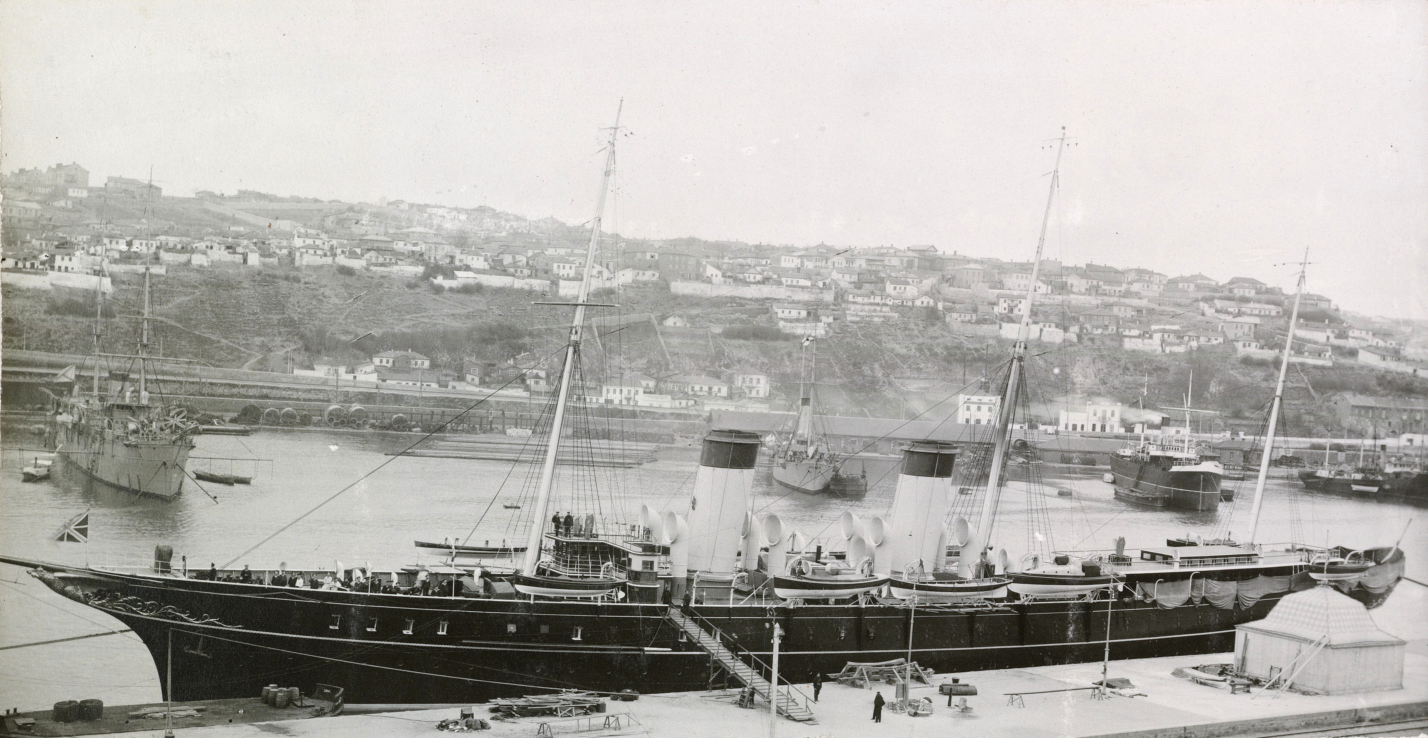 Imperial Russian imperial yacht Shtandart in Sevastopol, 1914.